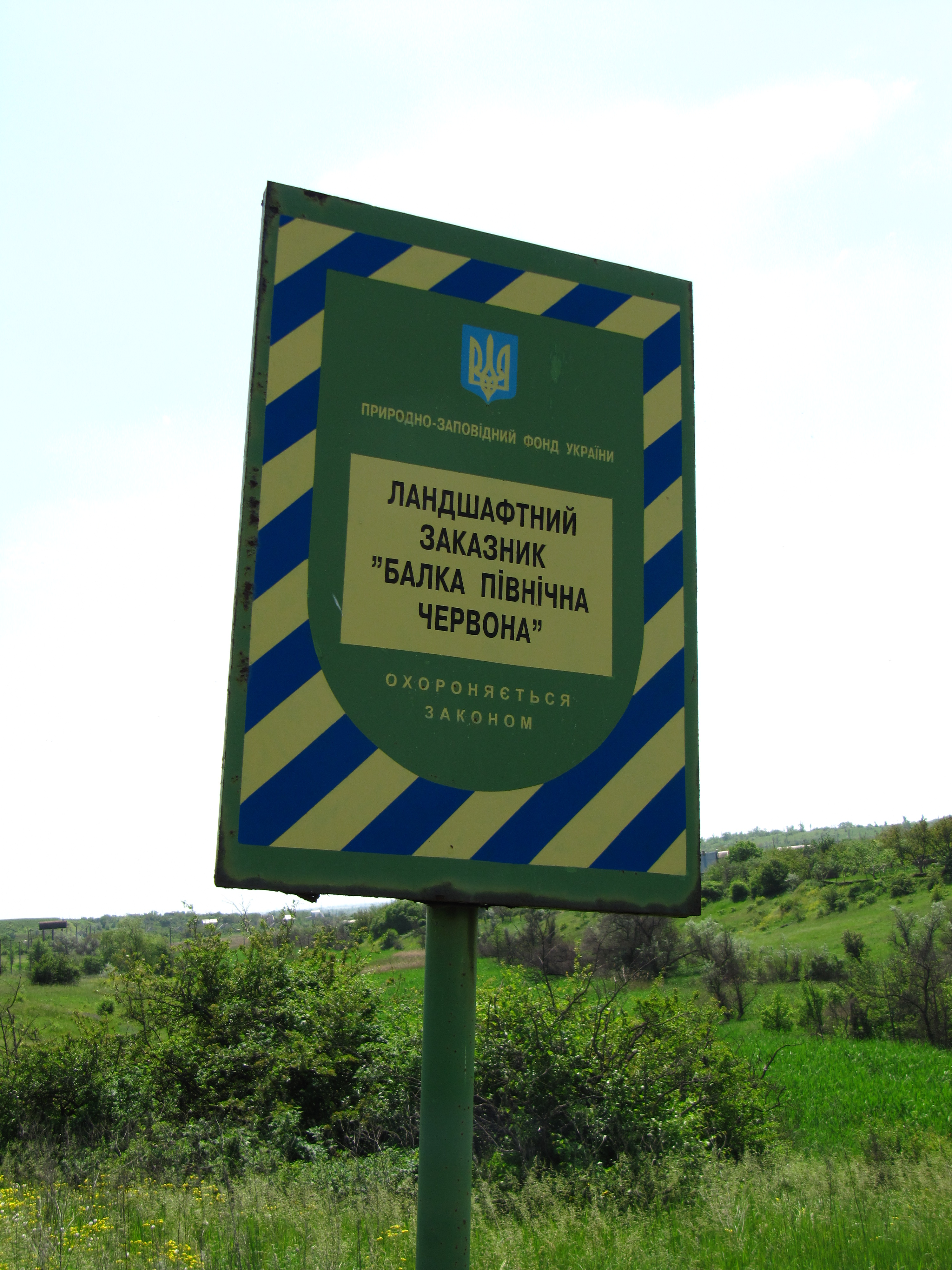 "Chervona balka pivnichna" ukrainian state sanctuary in Kryvyi Rih